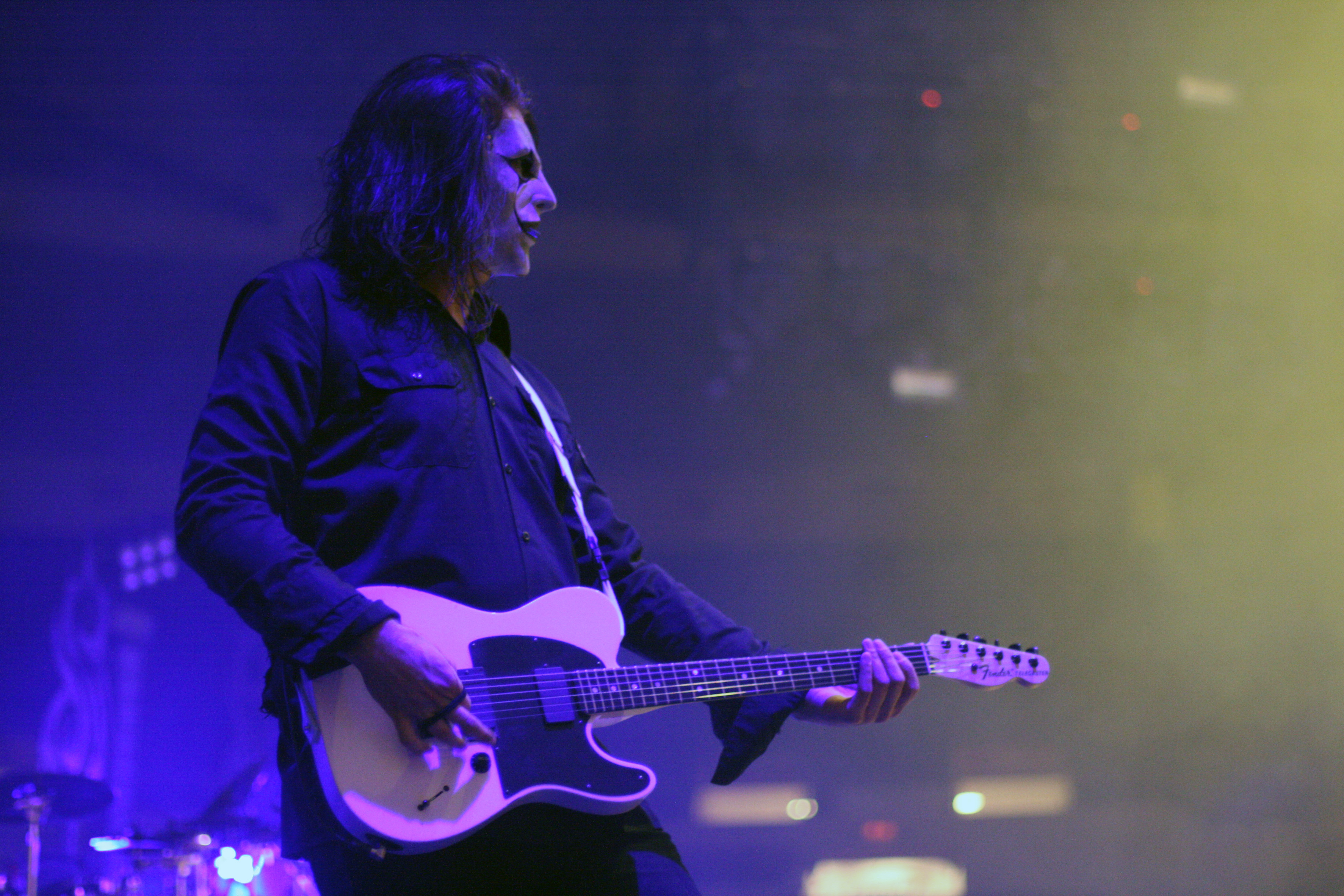 Jim Root from American metal band Slipknot